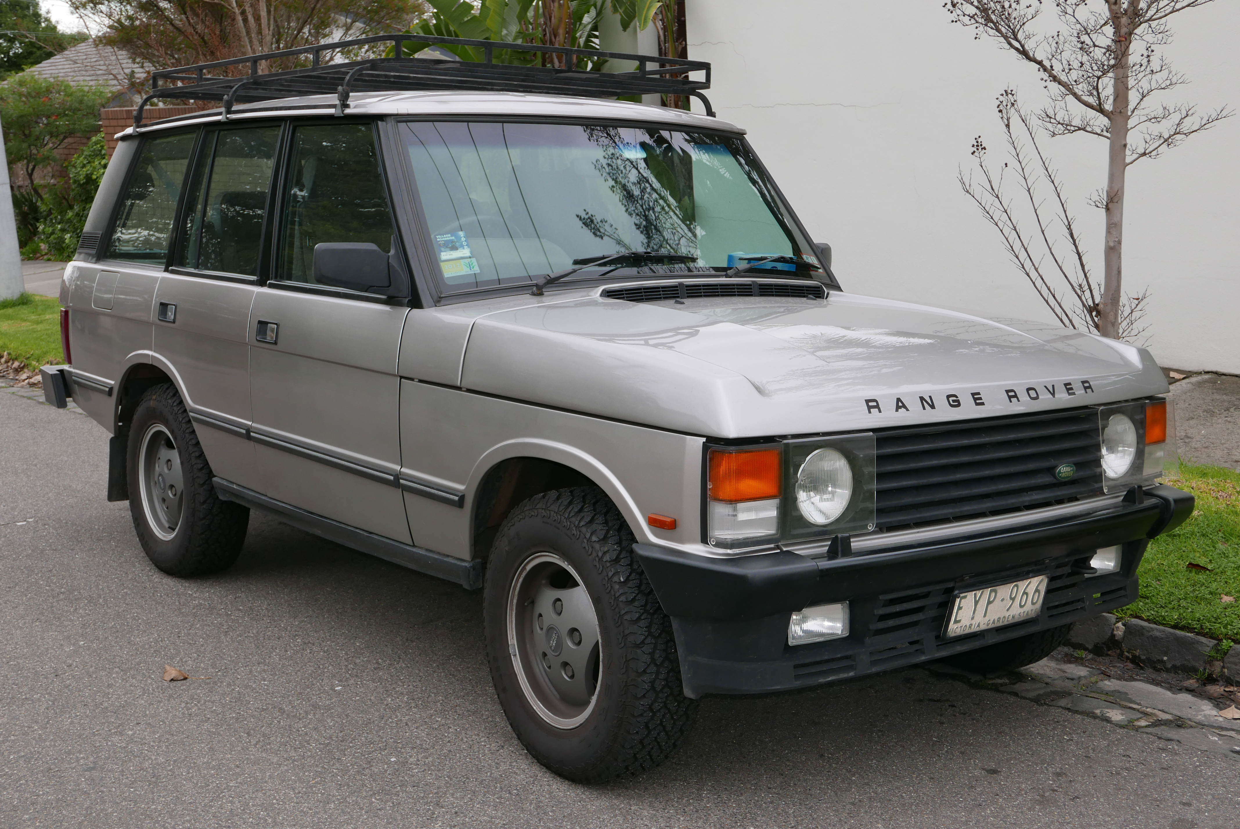 1992 Land Rover Range Rover County 5-door wagon. Photographed in Kew, Victoria, Australia. Vehicle registration enquiry results Jurisdiction Victoria Registration EYP966 Chassis code SALLHAMM7JA621051 Engine code 37D00819A Compliance date 1992-08 Year of manufacture 1992